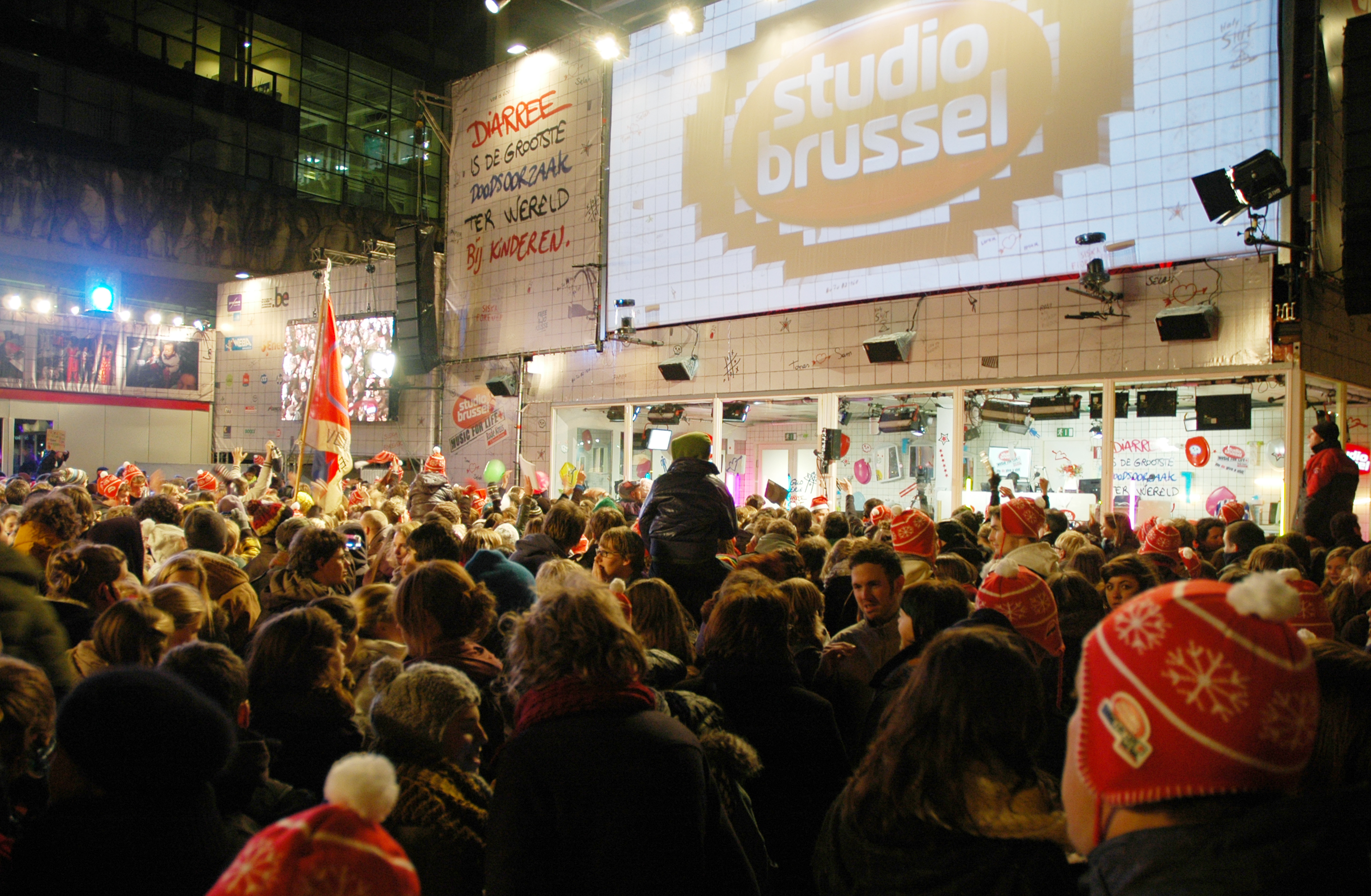 "Glass house" in Ghent for the Music for Life charity program